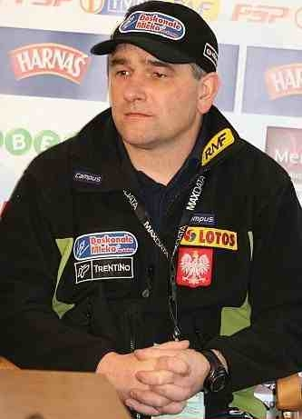 Zbigniew Klimowski, polish ski jumping coach during press conference before FIS Ski Jumping World Cup in Zakopane, 2007